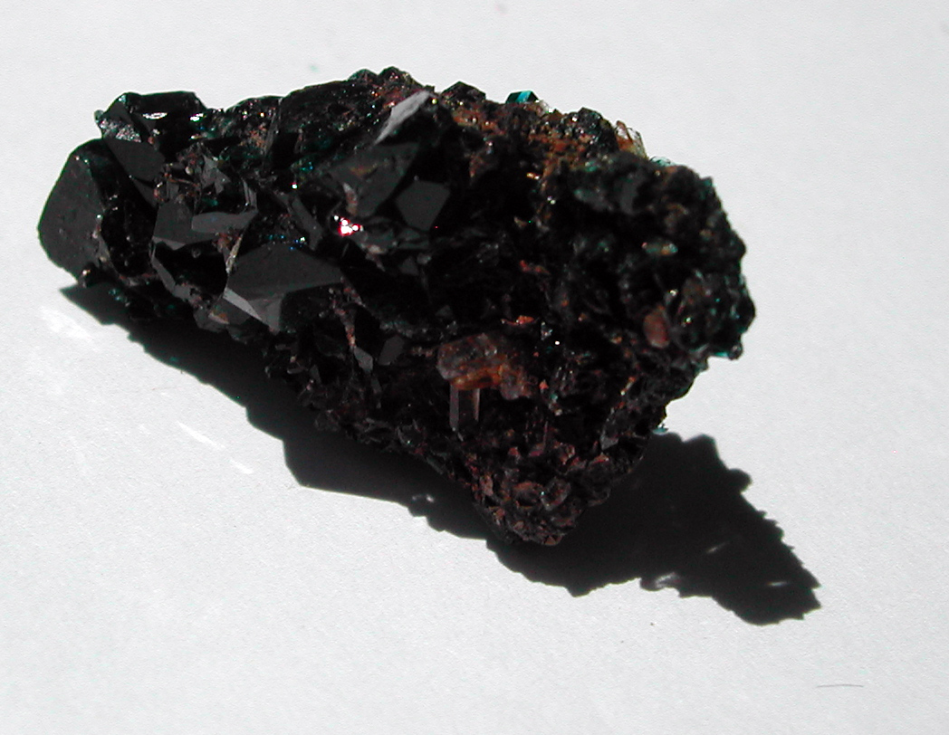 Lazulite and quartz from Rapid Creek, Yukon, Canada